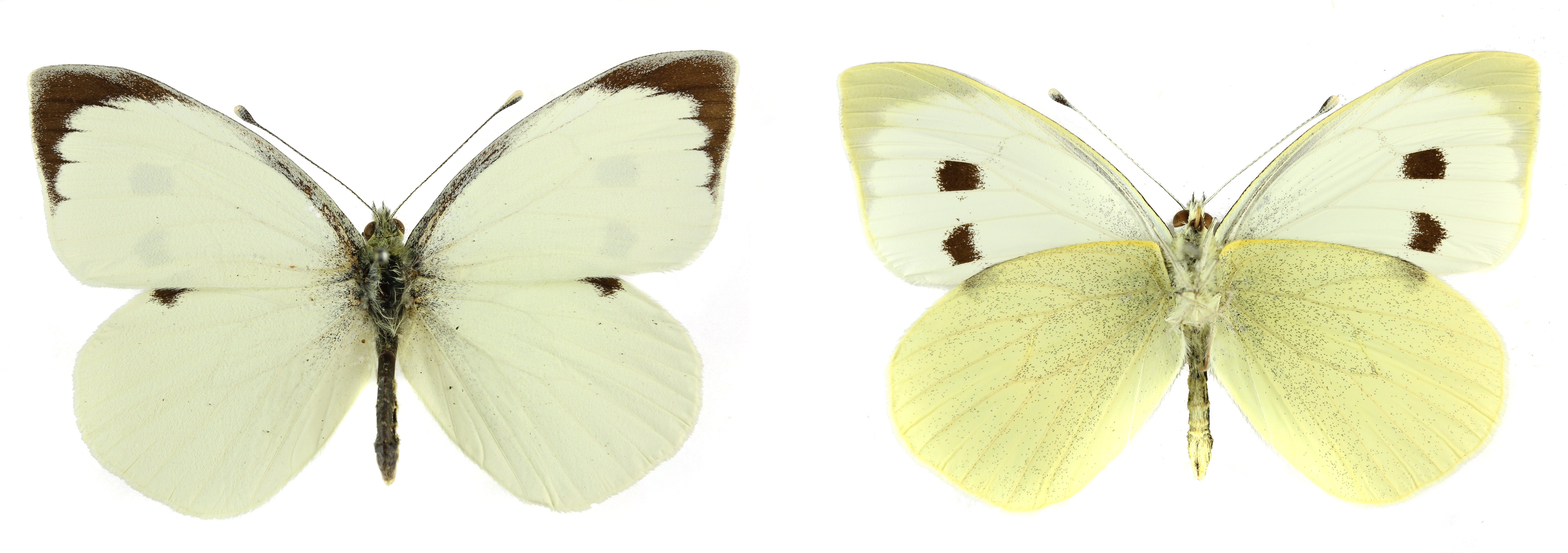 Pieris brassicae, insect collections SLU, Uppsala